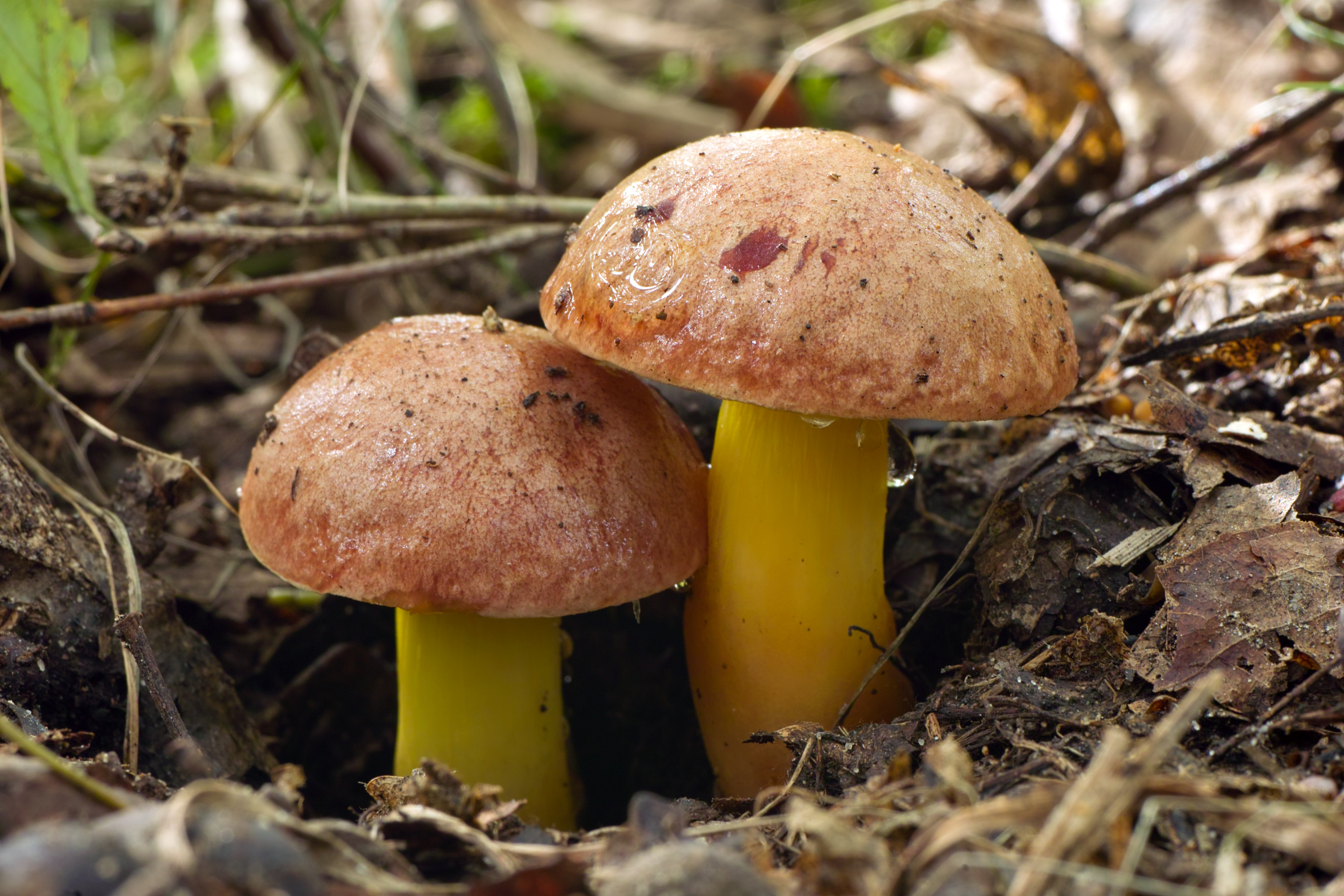 Aureoboletus gentilis, Vrbenské rybníky, Czech republic